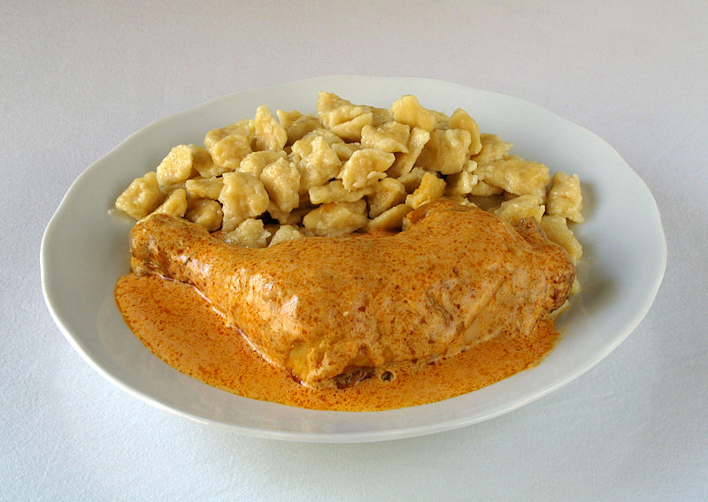 Hungarian Chicken Paprikash